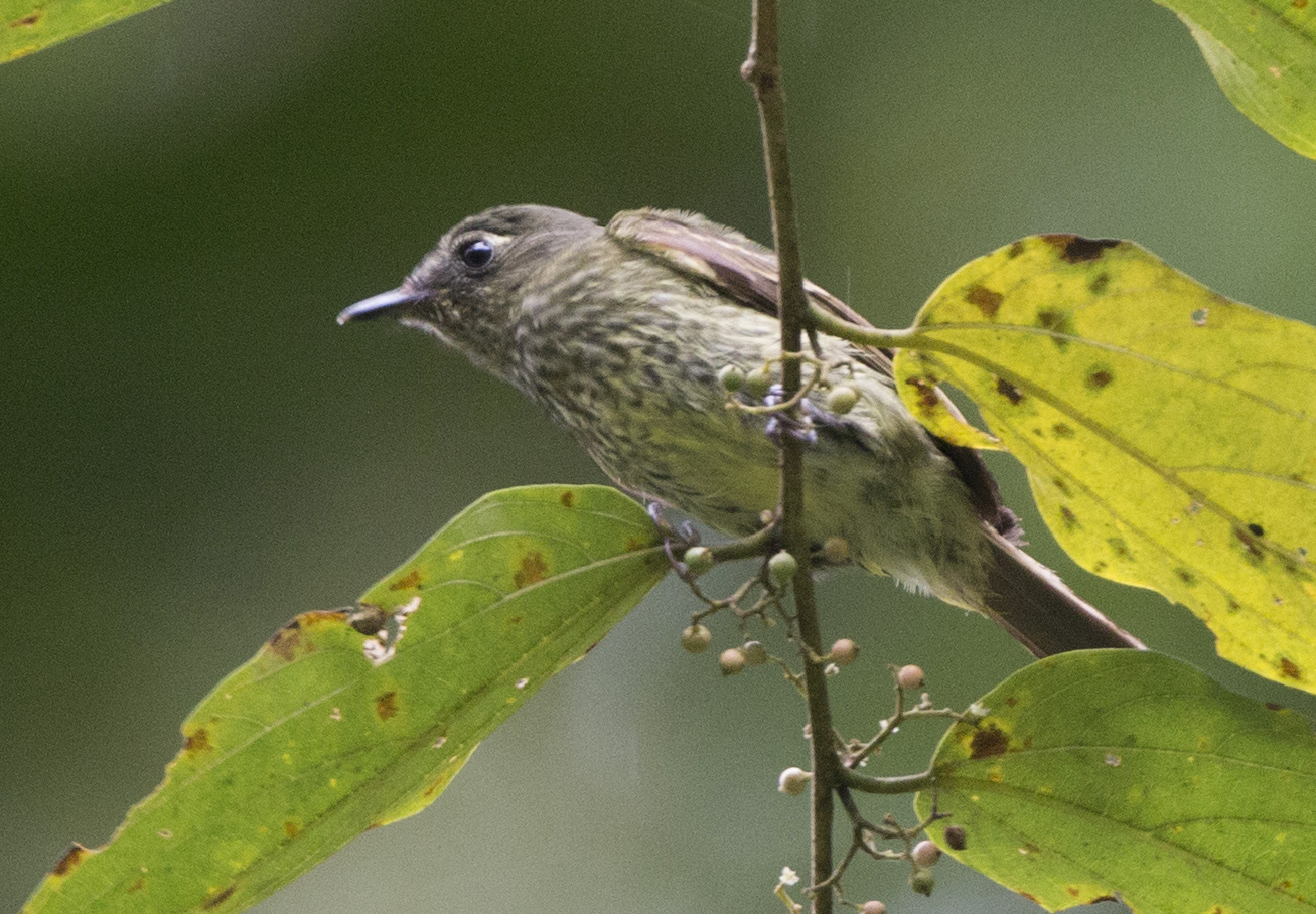 Olive-striped Flycatcher, Copalinga Ecolodge near Zamora, Ecuador